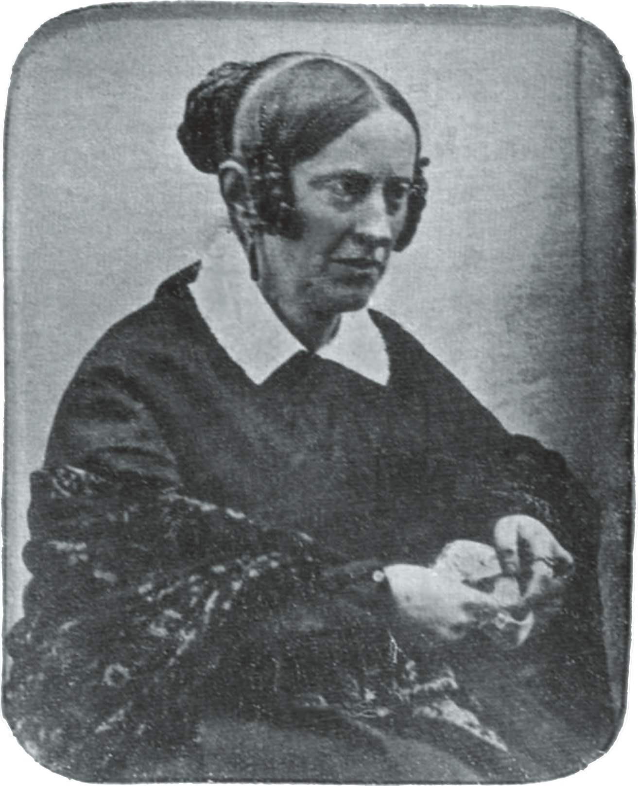 Portrait of Annette von Droste-Hülshoff